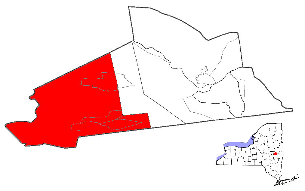 Map of Schenectady County highlighting Duanesburg